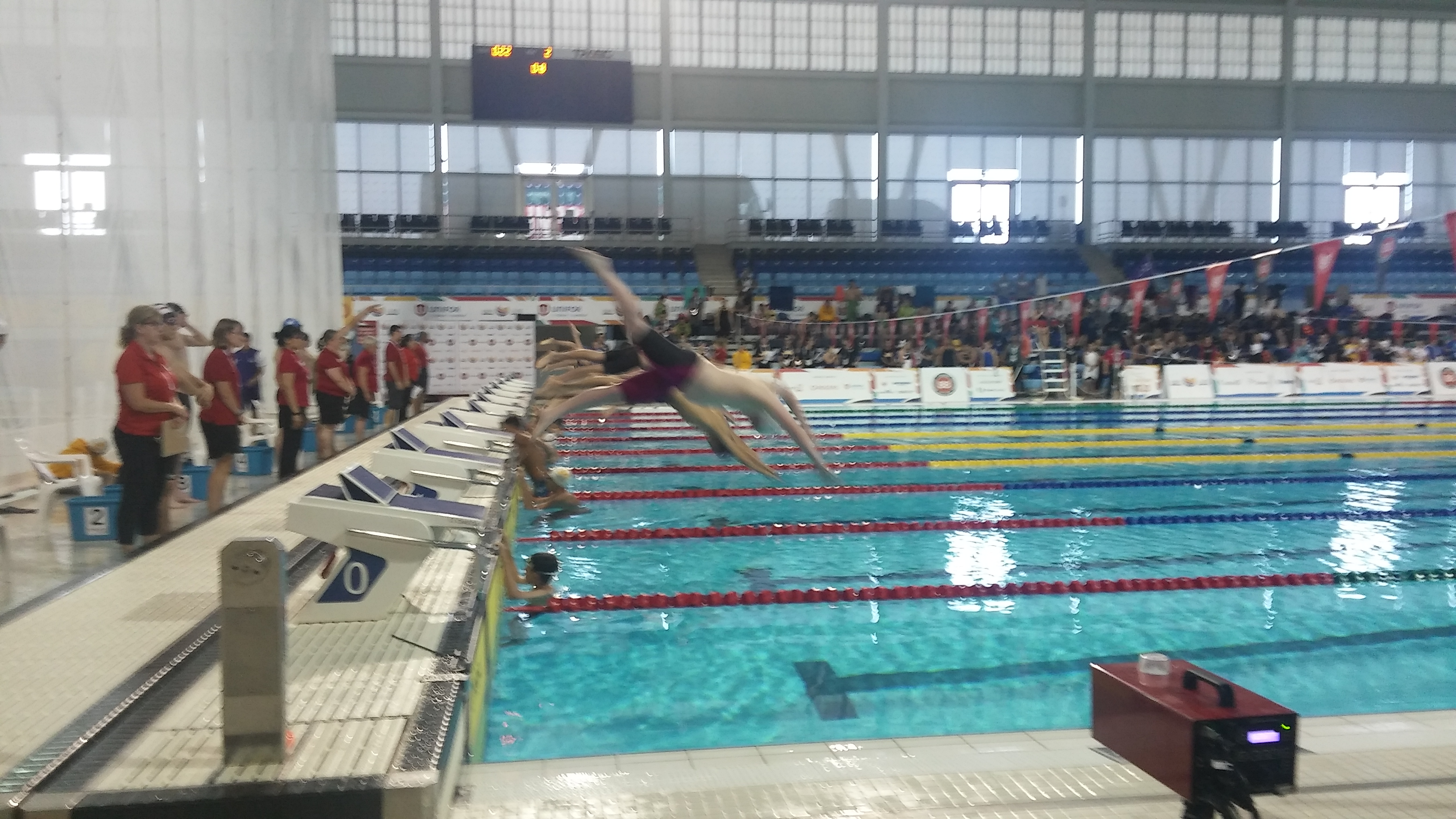 2017 North American Indigenous Games swimming competition at Toronto Pan Am Sports Centre, Toronto